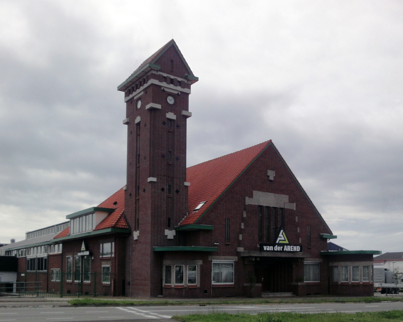 Former auction house of the vegetable and fruit auction in Poeldijk